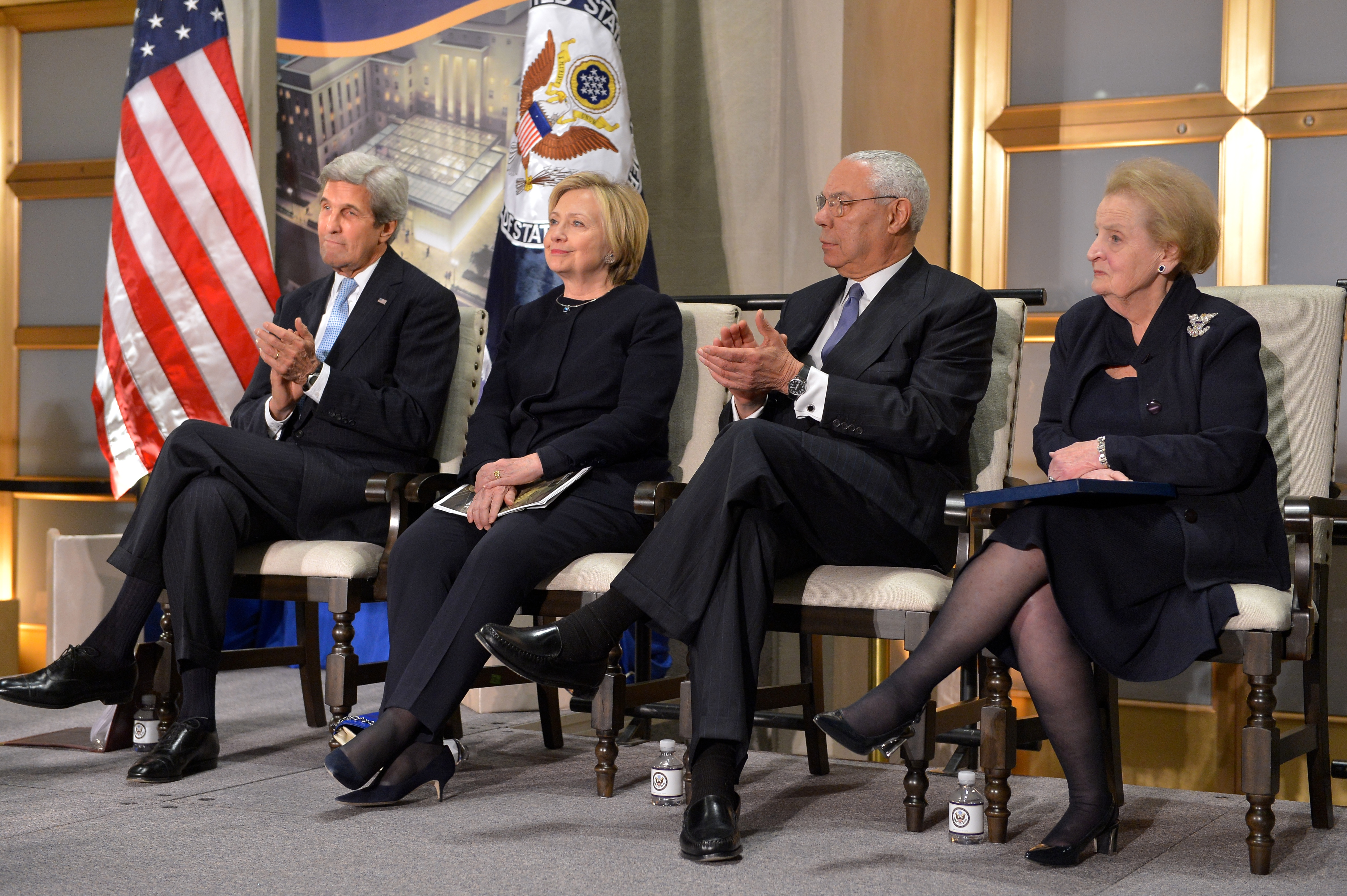 U.S. Secretary of State John Kerry, flanked by former Secretaries of State Hillary Rodham Clinton, Colin L. Powell and Madeleine Albright, attends a reception celebrating the completion of the U.S. Diplomacy Center at the U.S. Department of State in Washington, D.C. on January 10, 2017. [State Department Photo/ Public Domain]